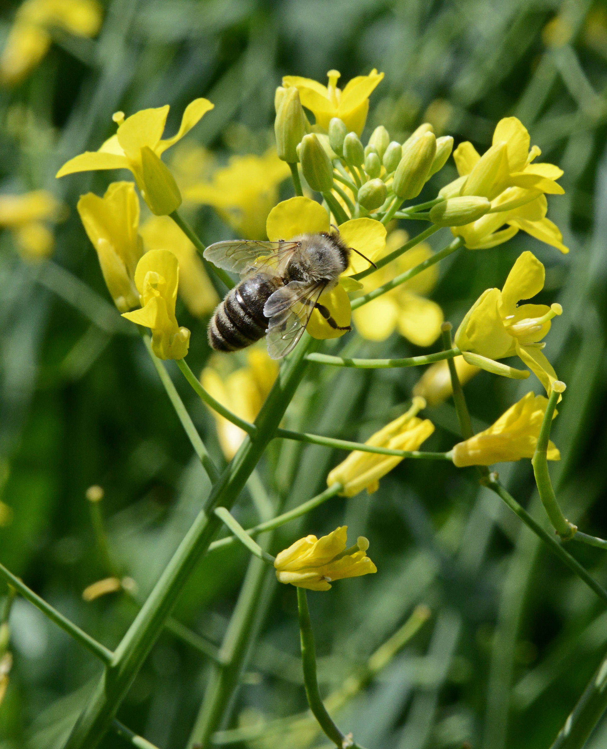 Brassica napus, inflorescense with Apis mellifera